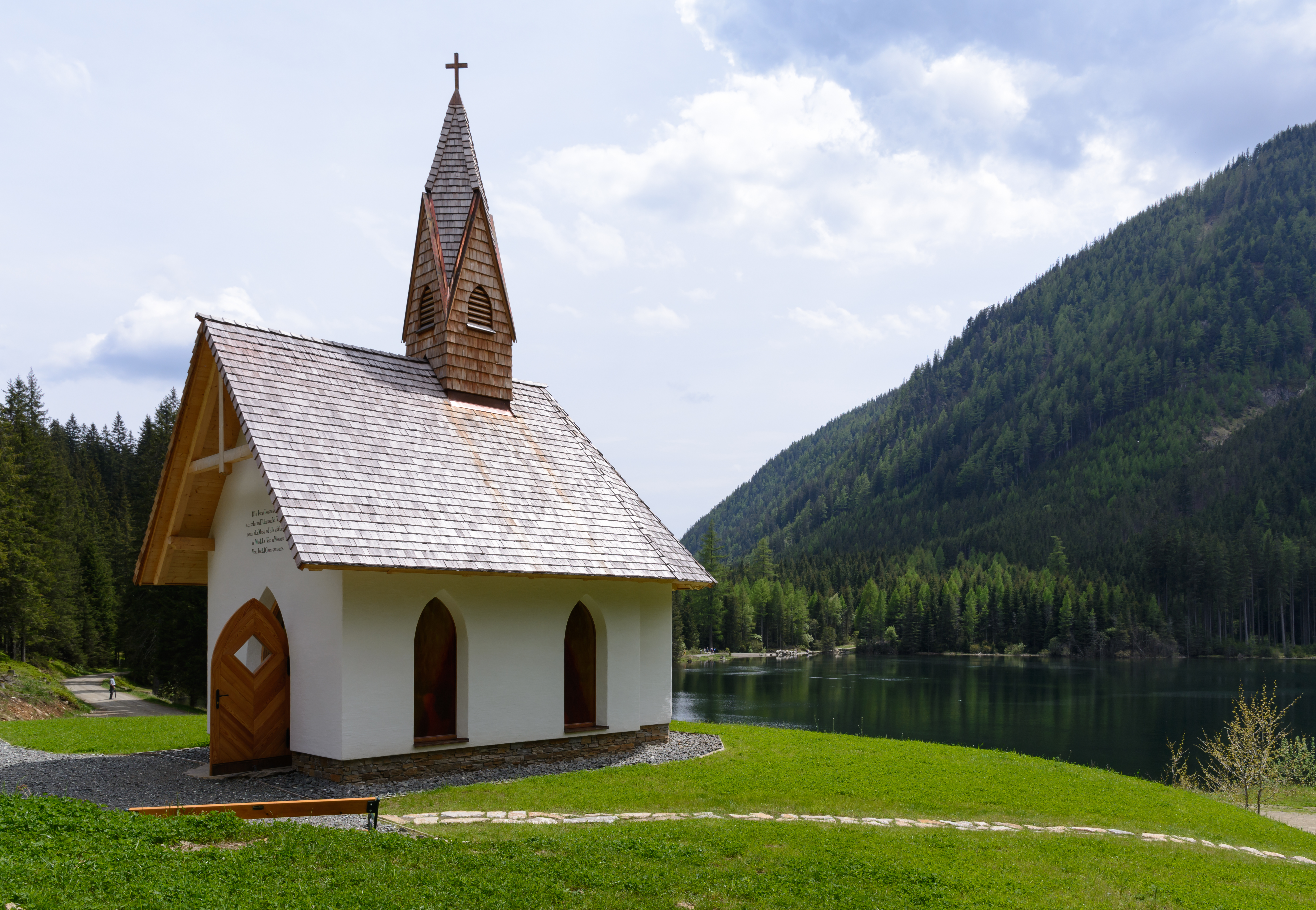 Chapel of Saint Clement of Rome (consecrated in 2015) at lake Ingeringsee near Gaal, Styria, Austria